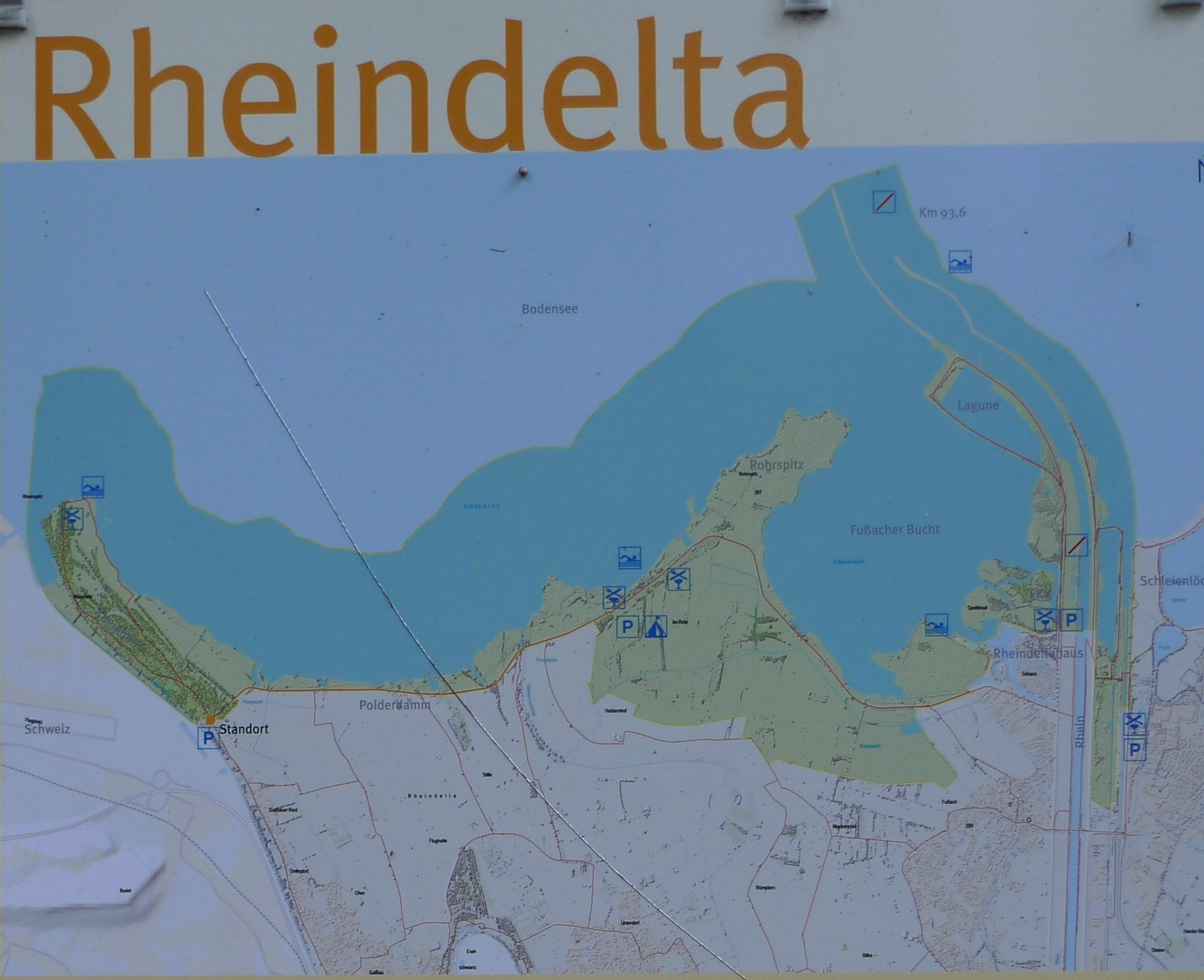 Rheindelta (Lake Constance) - Information board